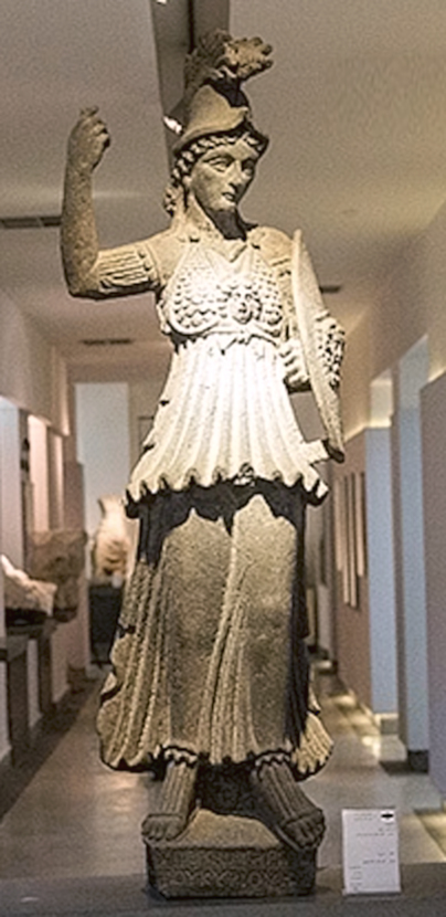 Alat-Minerva, Damascus Museum